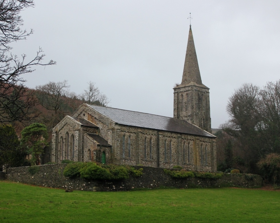 Kirk Christ ("Christ Church") Lezayre, Isle of Man. (Photographed December 2013).